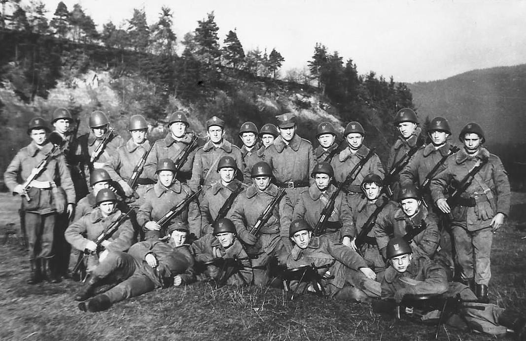 Border Protection Forces in Żywiec